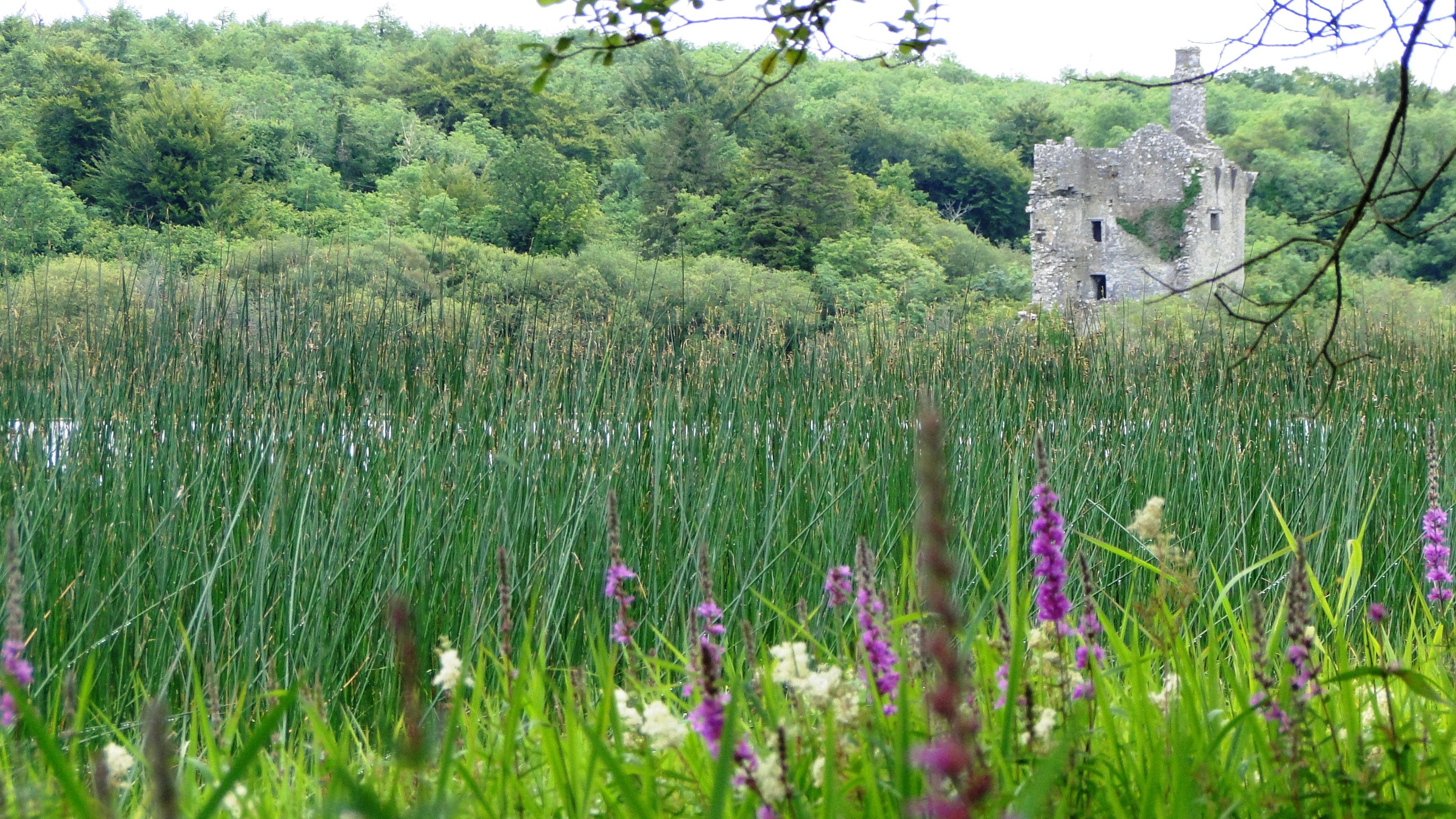 View of the ruins of Dromore Castle, County Clare, Ireland as seen from Rabbit Island